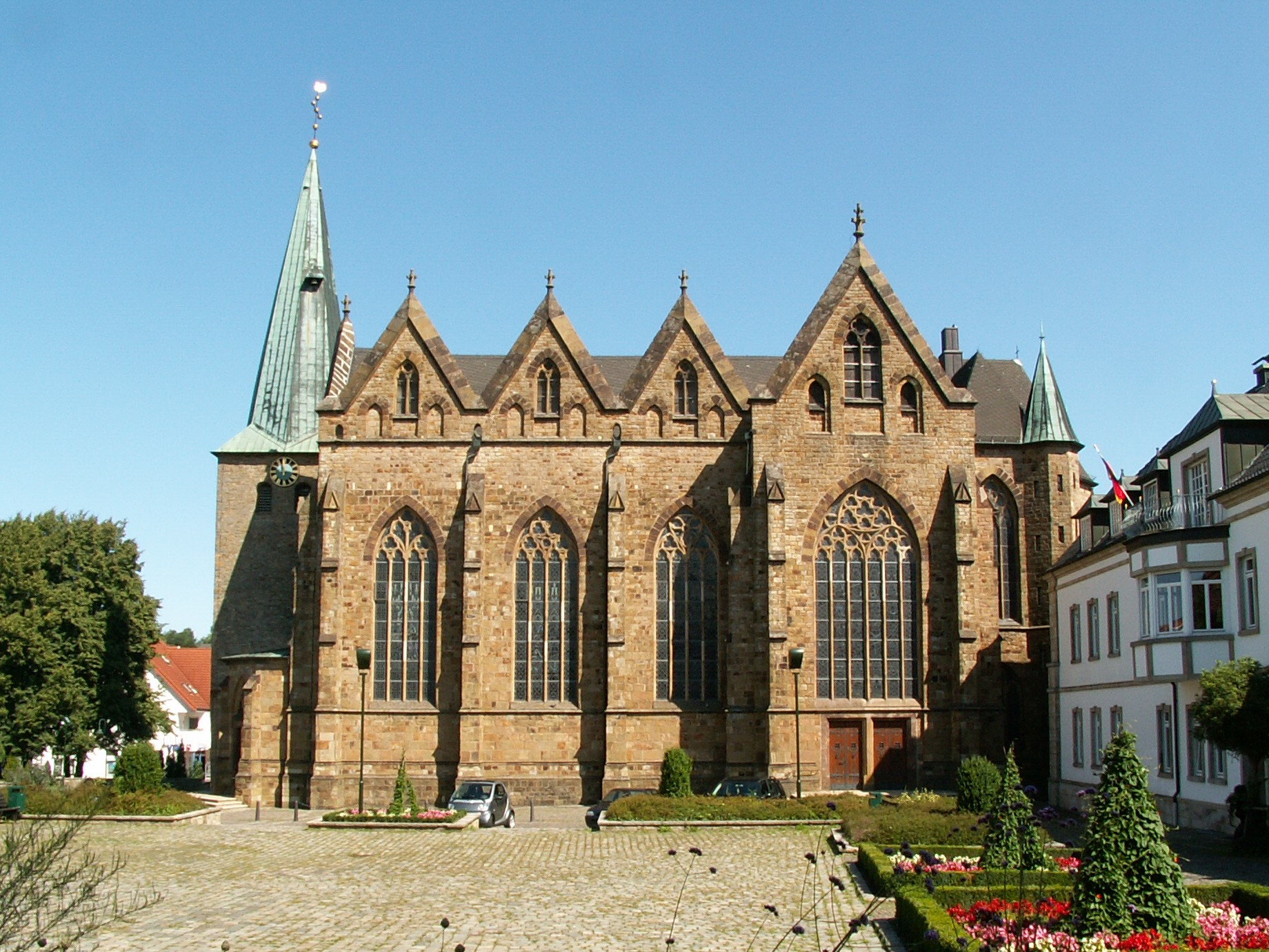 St. Lambertus church in Ostercappeln, south view